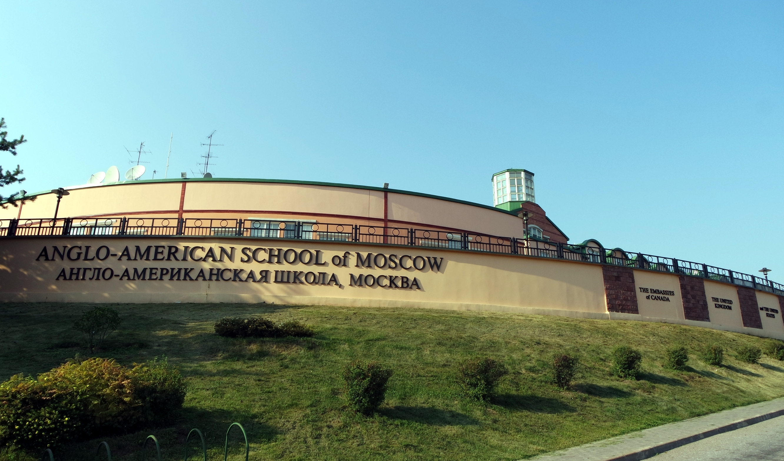 Anglo-American School of Moscow